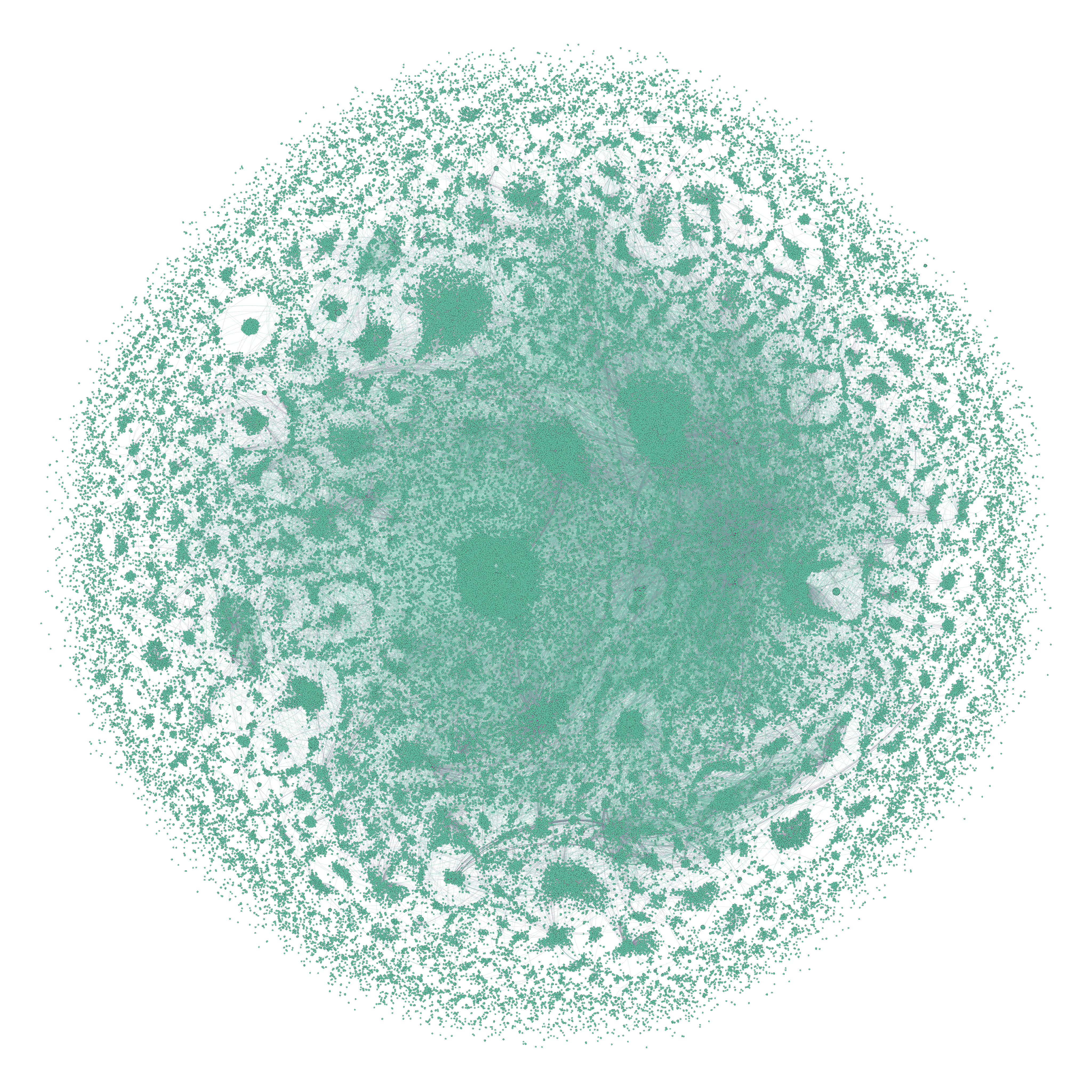 Visualization of the relationships of the panama papers using gephi, all_edges.csv from the panama papers dataset, and OpenOrd as the layout algorithm. "ICIJ Offshore Leaks Database." ICIJ Offshore Leaks Database. May 9, 2016. Accessed May 10, 2016.